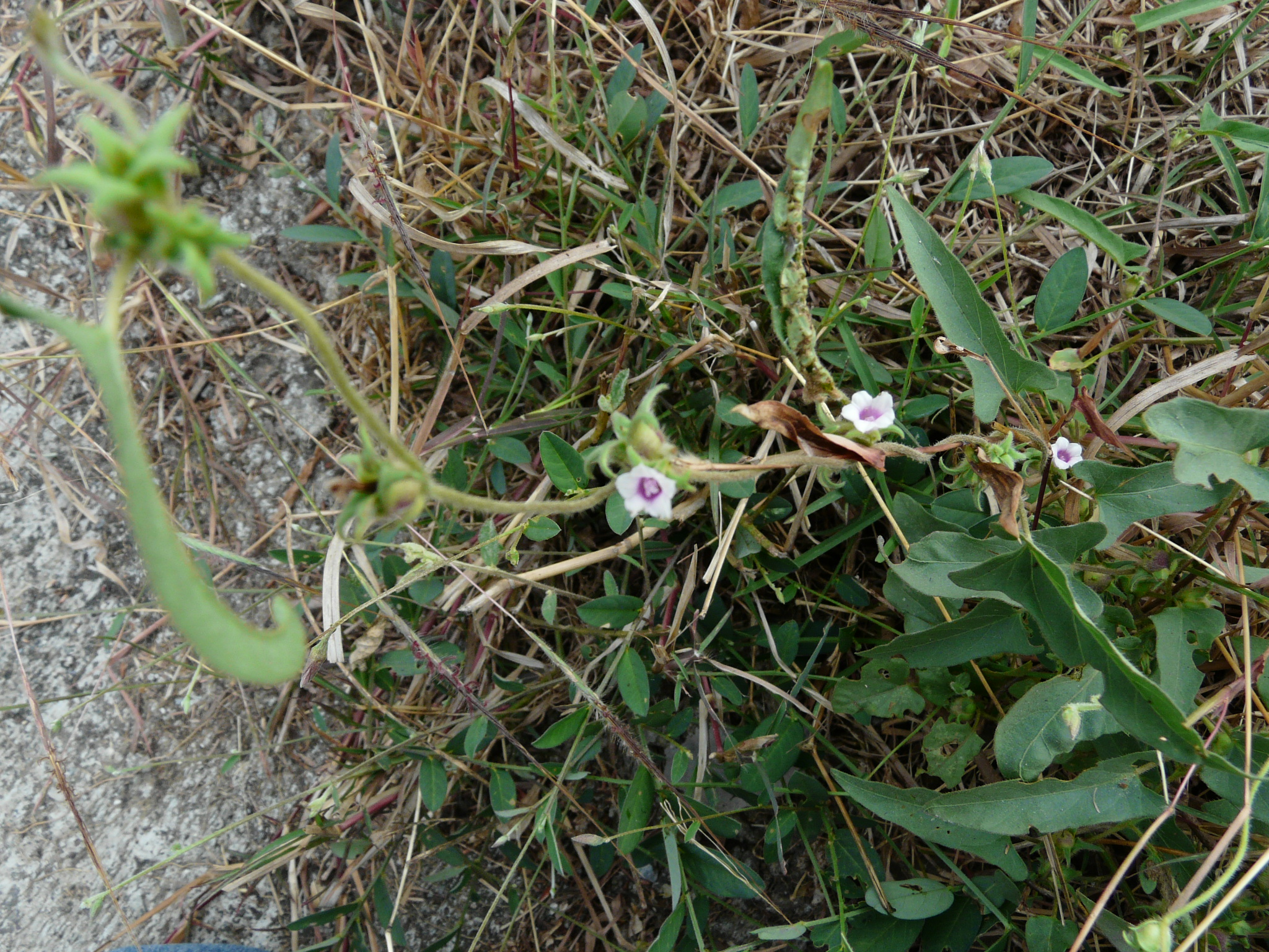 Convolvulaceae (convolvulus, bindweed, or morning glory family) » Ipomoea eriocarpa ip-oh-MEE-uh or ip-oh-MAY-uh -- meaning, worm-like; referring to coiled flower bud er-ee-oh-KAR-puh -- meaning, woolly fruit commonly known as: morning glory •